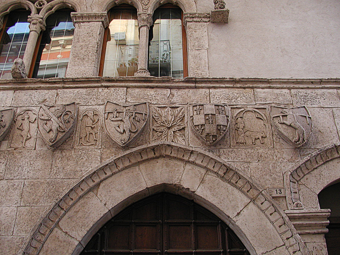 Taverna Ducale